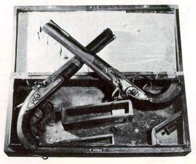 The pair of flintlock pistols used for the Burr-Hamilton duel, on 11 July 1804 at Weehawken, New Jersey. The pistols were handmade by Wogdon & Barton, English gunsmiths from London.